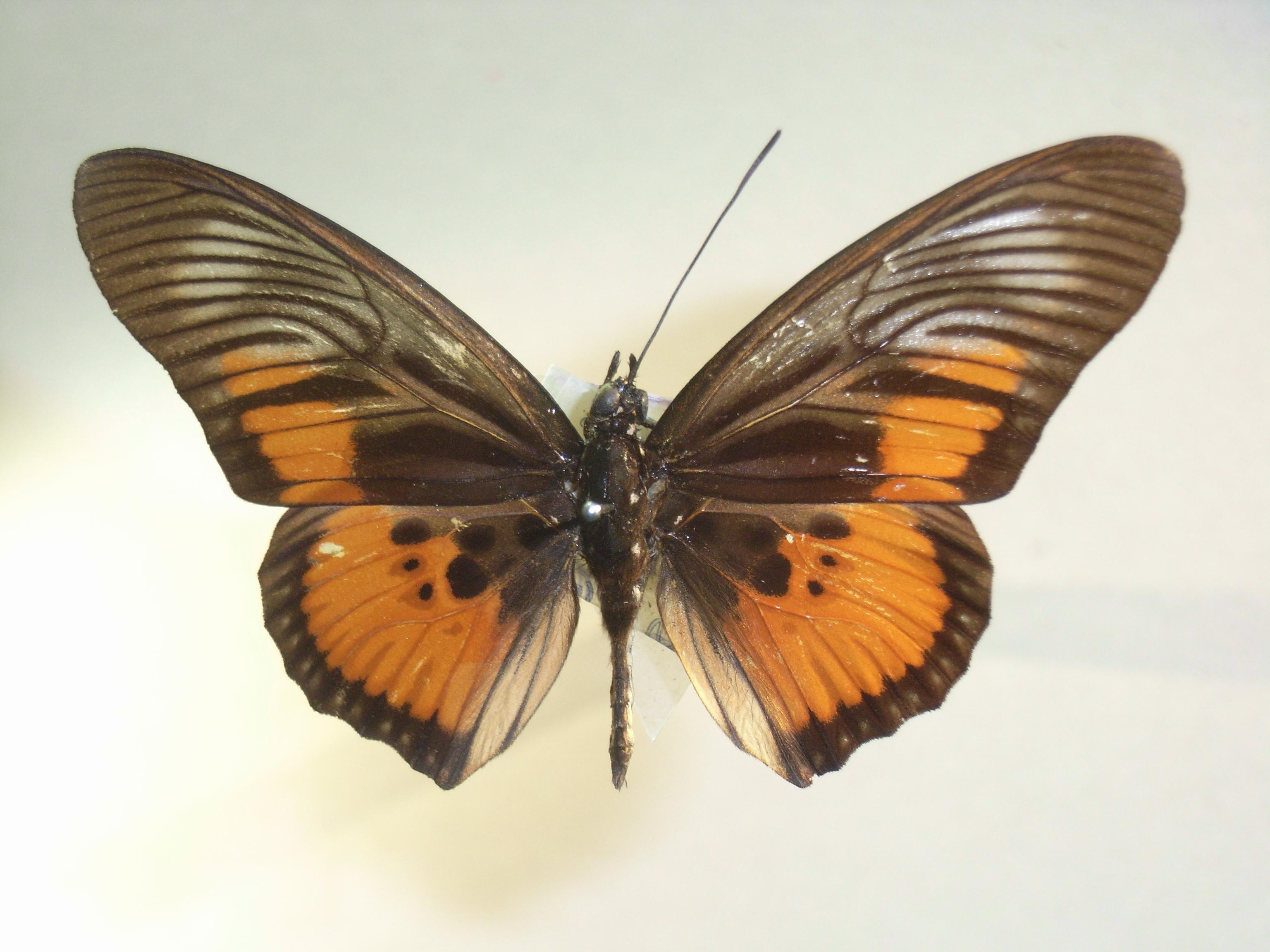 Pseudacraea egina:Limenitidinae:Nymphalidae